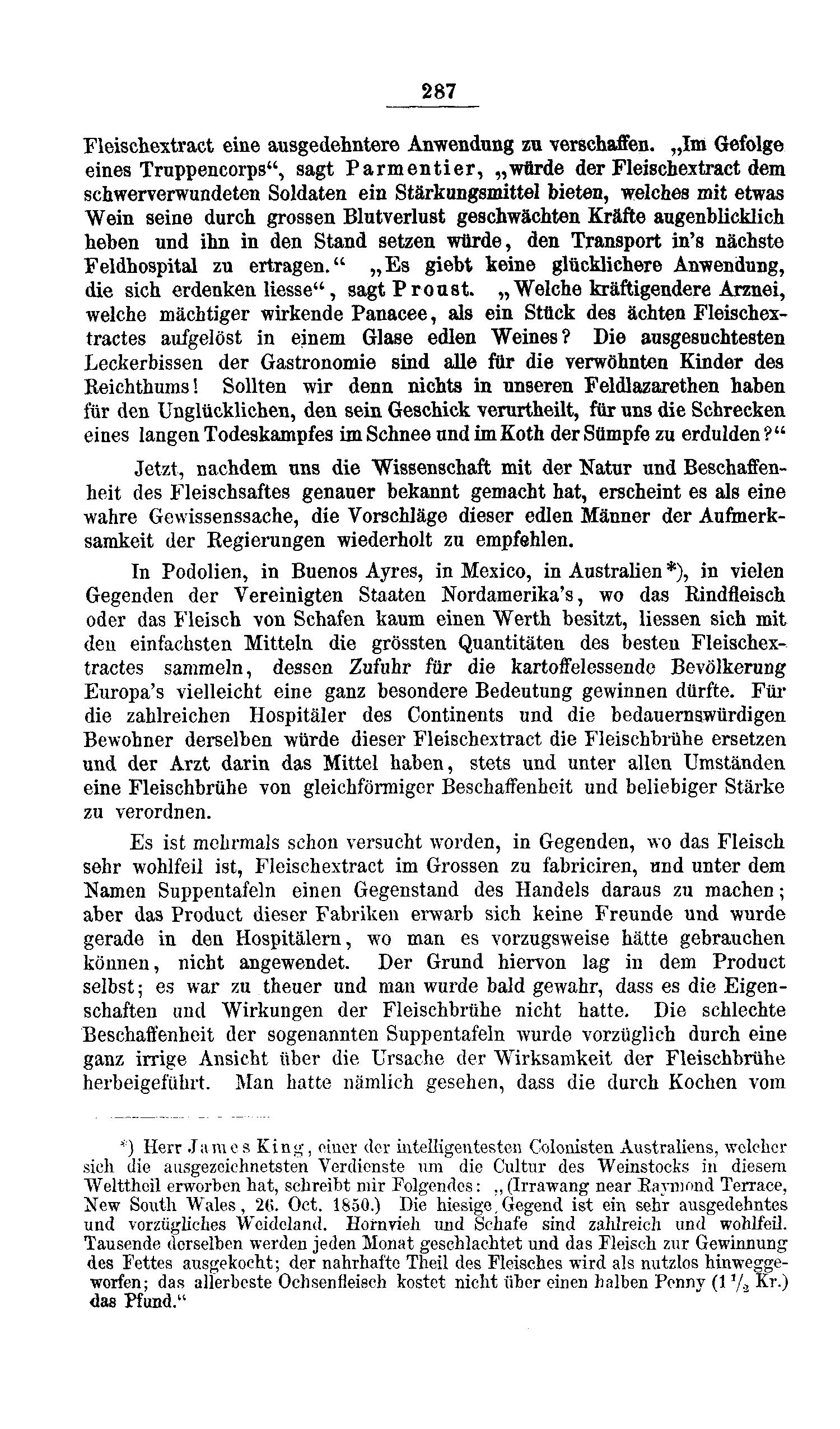 This is a scan of the historical document